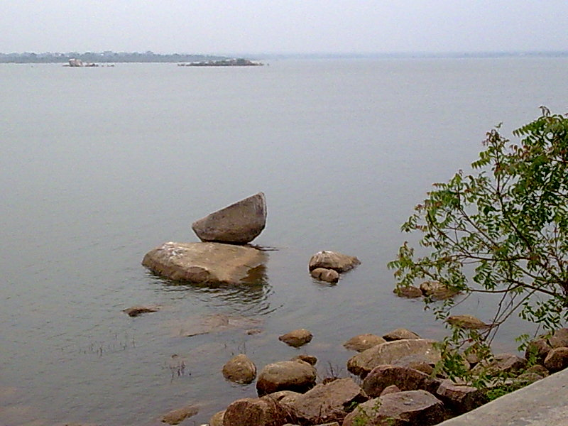 panaromic view of the OsmanSagar lake on outskirts of hyderabad.The balancing act of rocks sure is eye catching.